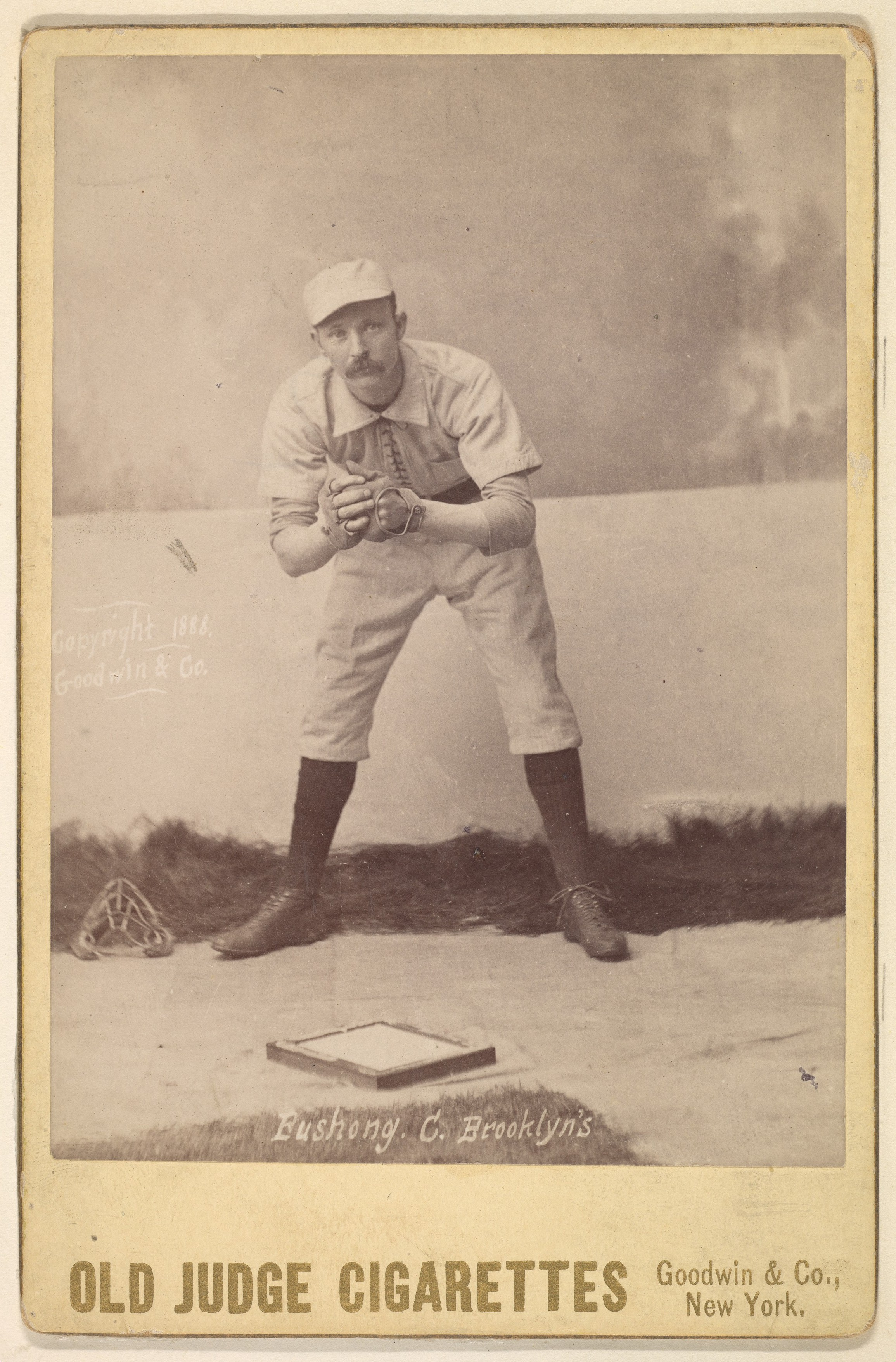 Albert John "Doc" Bushong, Catcher, Brooklyn, from the series Old Judge Cigarettes